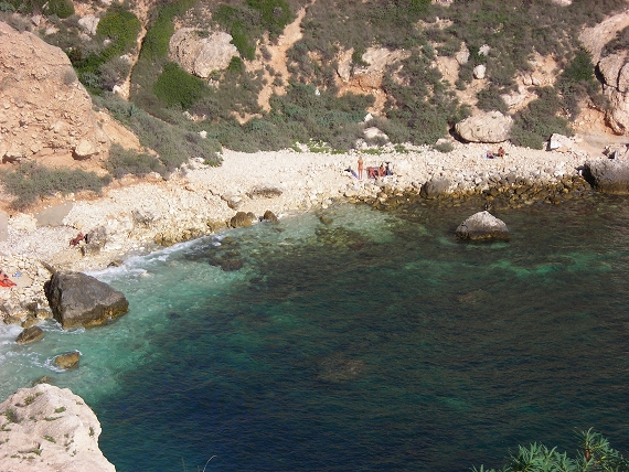 The naturist beach of Cala Fighera, Cagliari (Sardinia, Italy)